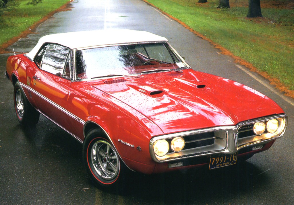 1967_Pontiac_Firebird_400_HO_Convertible_Red_Top_Rt_Frt_Qtr